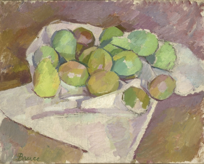 "Plums," oil on canvas, by the American artist Patrick Henry Bruce. Yale University Art Gallery, gift of Collection Société Anonyme. Courtesy of Yale University, New Haven, Conn.